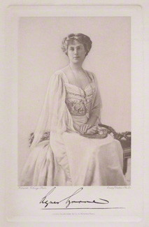 Photograph and Signature of Lady (Agnes Geraldine) Grove, from the frontispiece of her book The Social Fetich.